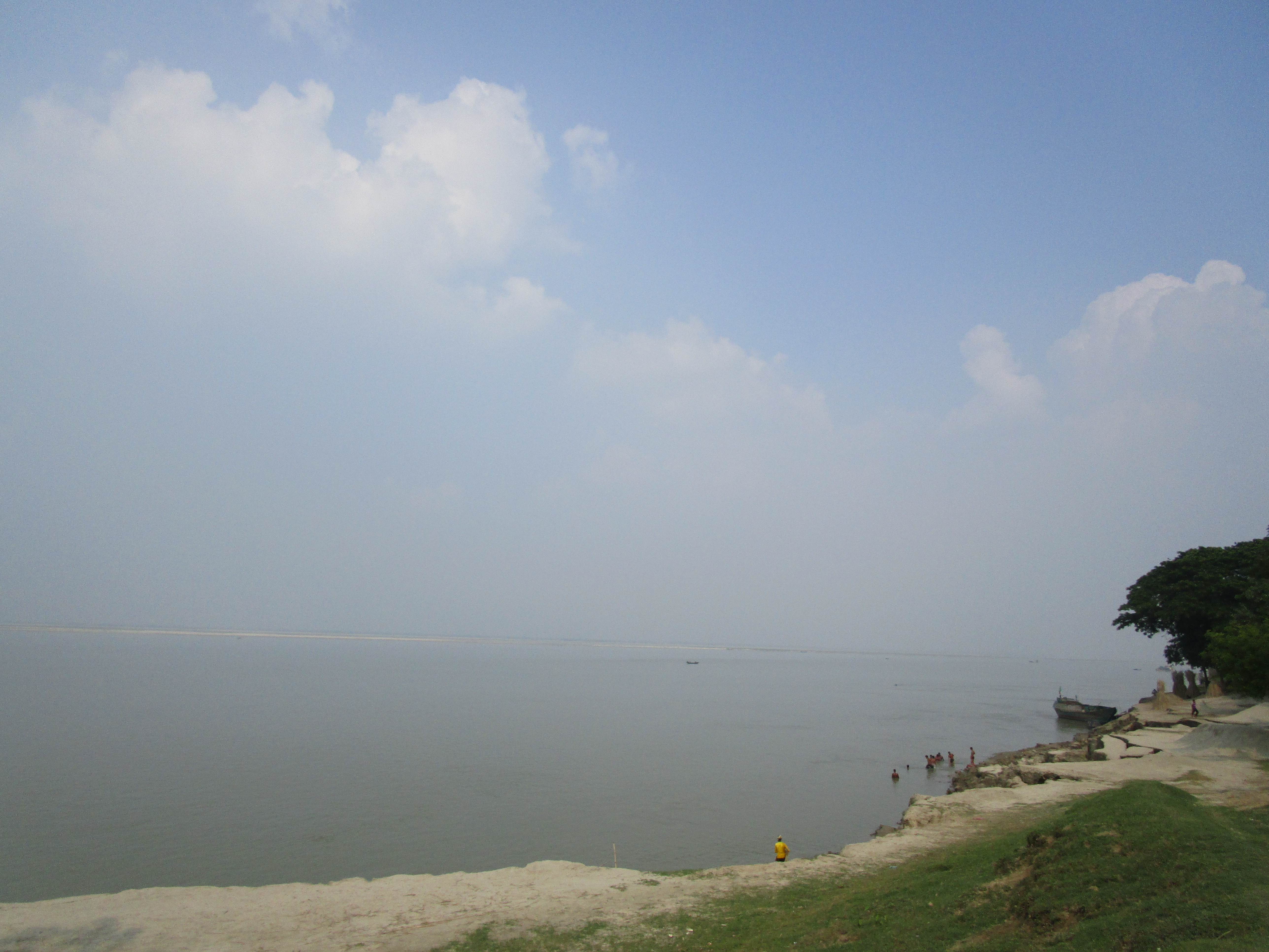 Padma River from Koya Union, Kumarkhali